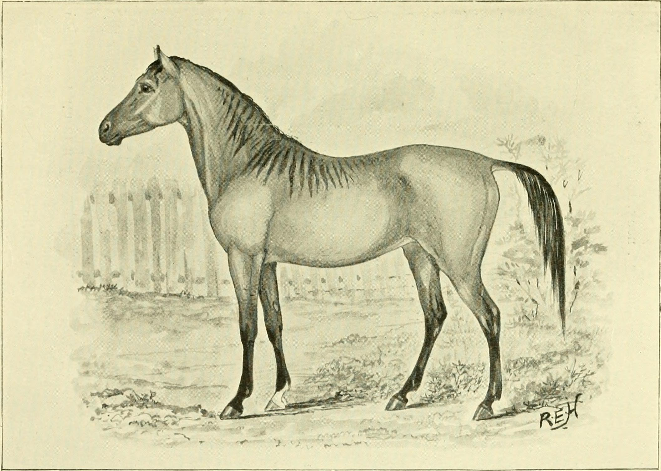 Title: The Penycuik experiments Year: 1899 (1890s) Authors: Ewart, J. C. (James Cossar), 1851-1933 Subjects: Hybridization Telegony Horses Publisher: London : A. and C. Black Text Appearing Before Image: 1 ^ TELEGONY AND REVERSION. 67 Text Appearing After Image: d» TELEGONT AND REVERSION. quagga tliej resulted from reversion. I prefer the rever-sion explanation^ because it seems to me to be simpler andmore in accordance with established facts. I have fre-quently seen numerous zebra- or quagga-like stripes notonly in foals but also in aged horses^ stripes on the faceas well as on the shoulder, neck, body, and legs. Hencethe possibility of reversion may in the meantime be takenfor granted, and the further question asked. Were themarkings on the colts sufficient in themselves to provethat the Arabian mare had been infected by the quagga ?I think it must be admitted that the stripes taken by them-selves are barely sufficient to prove infection. If the paint-ings by Agasse (in the Royal College of Surgeons Museum,Lincolns Inn Fields, London) are accurate, Lord Mortonsquagga-hybrid (Fig. 14) was but feebly striped. Agasseshows three distinctbut short stripes across the left shoulder,four faint and still shorter stripes on the neck, ten cross-strip